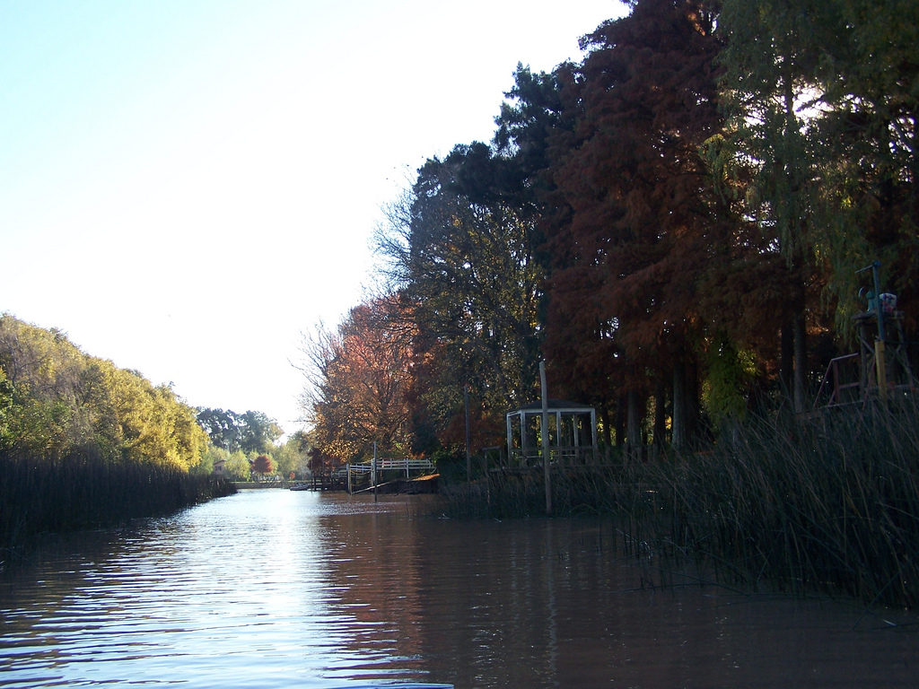 Paraná Delta